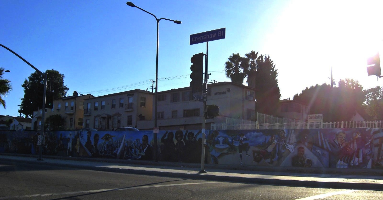 This is the Crenshaw Mural of African American Progress located at 52nd and Crenshaw Blvd, Los Angeles, CA. This photo was taken by Adrian Miles and used with permission under the creative commons 2.0.